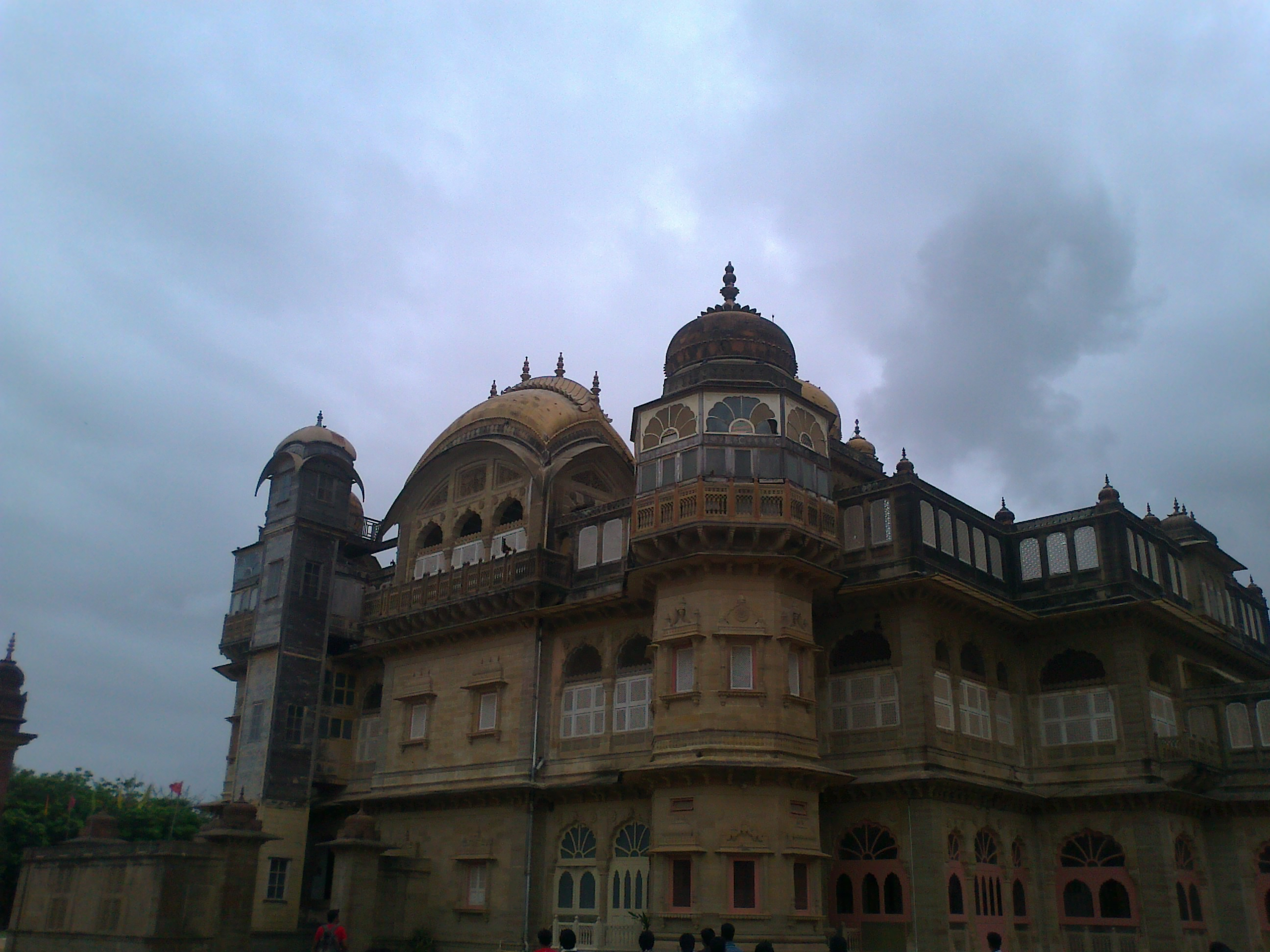 Palace in Bhuj